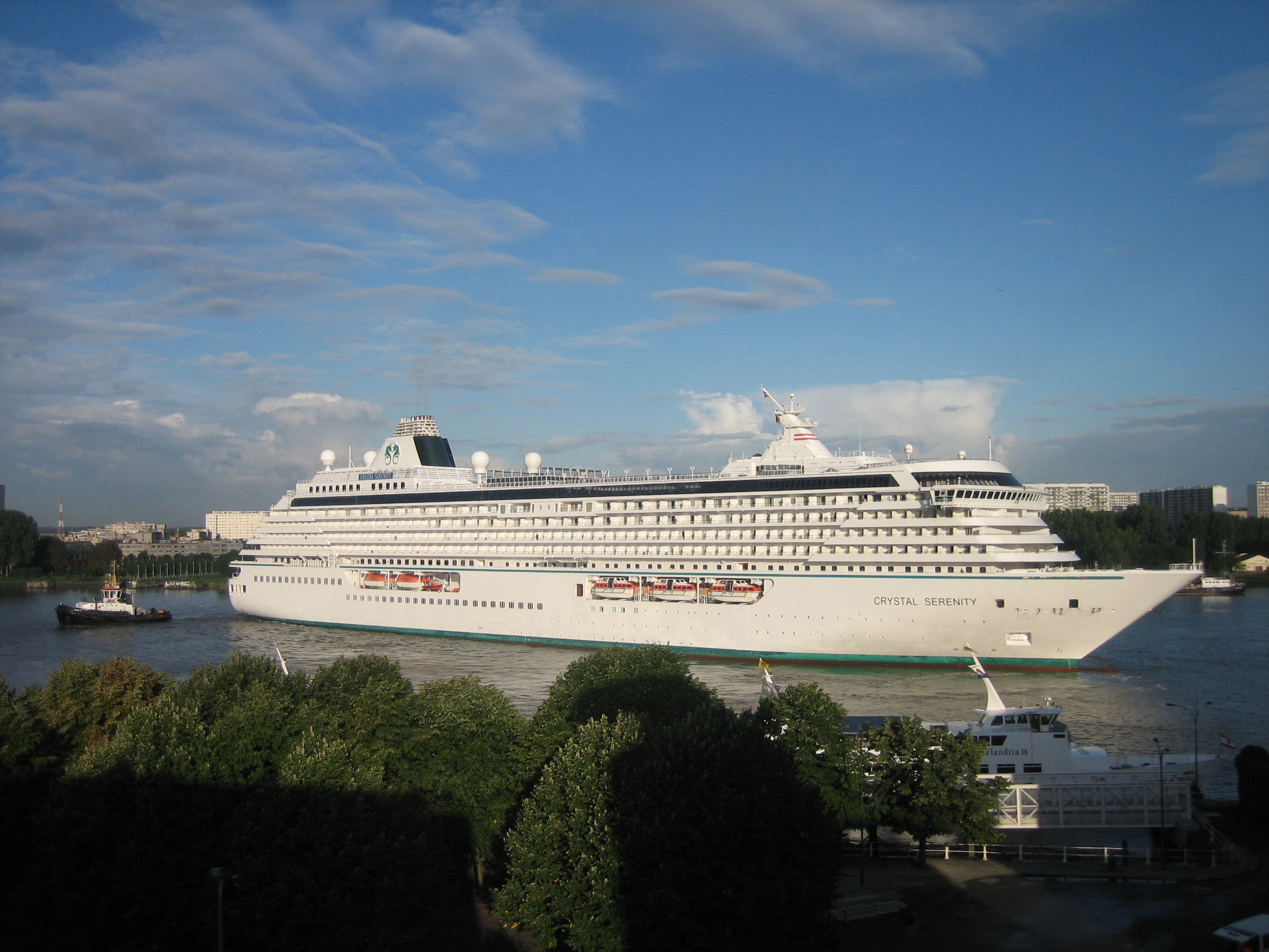 Cruise ship Crystal Serenity, mooring in Antwerp